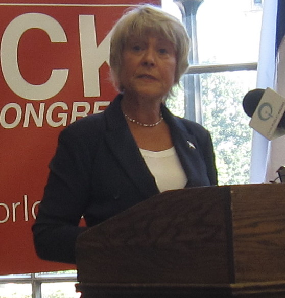 Vilsack announcement in Ames 035